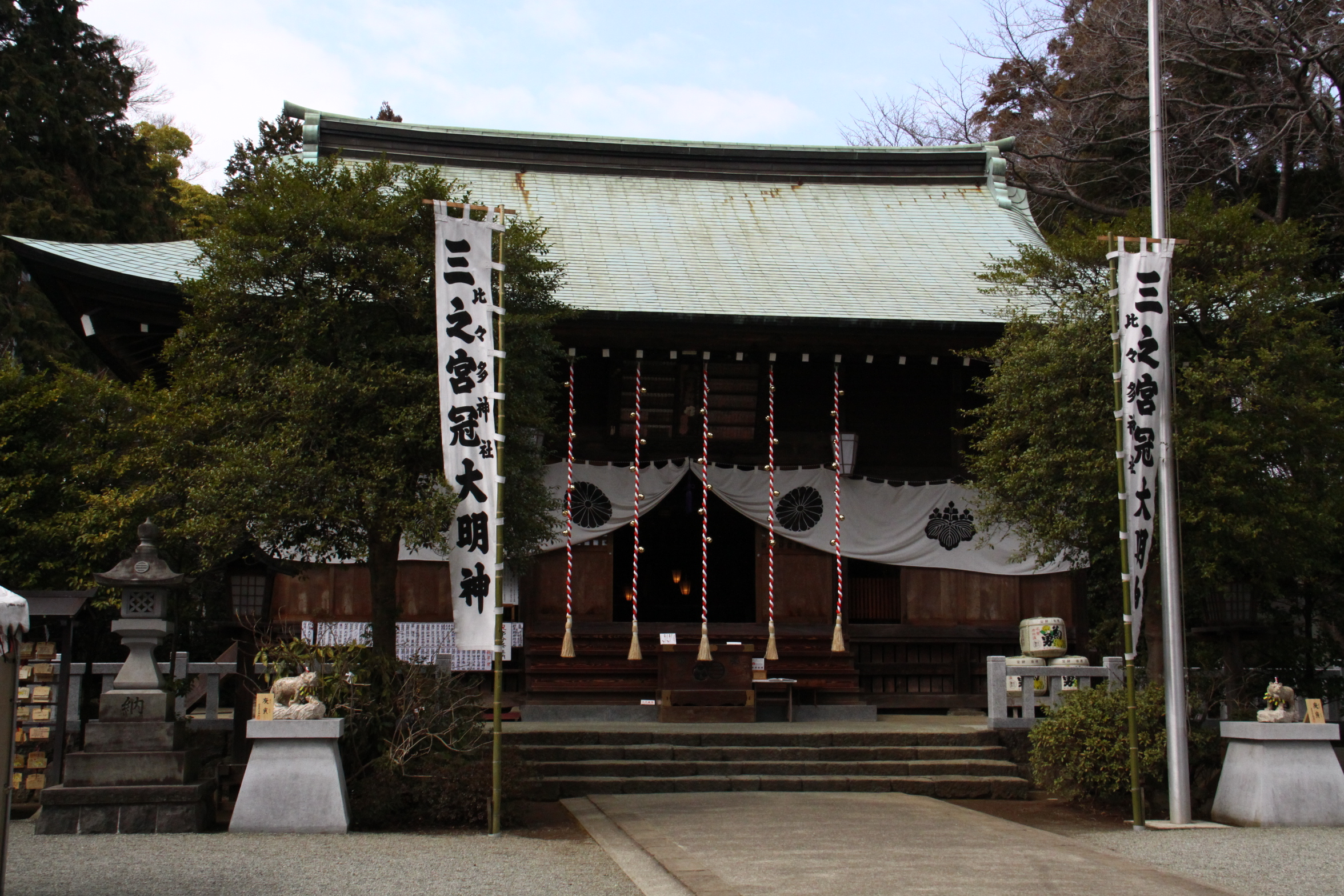 Hibita jinja Haiden